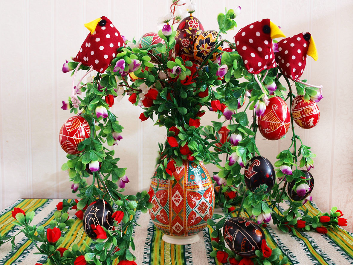 The Easter bouquet. Ukraine (Luhansk)